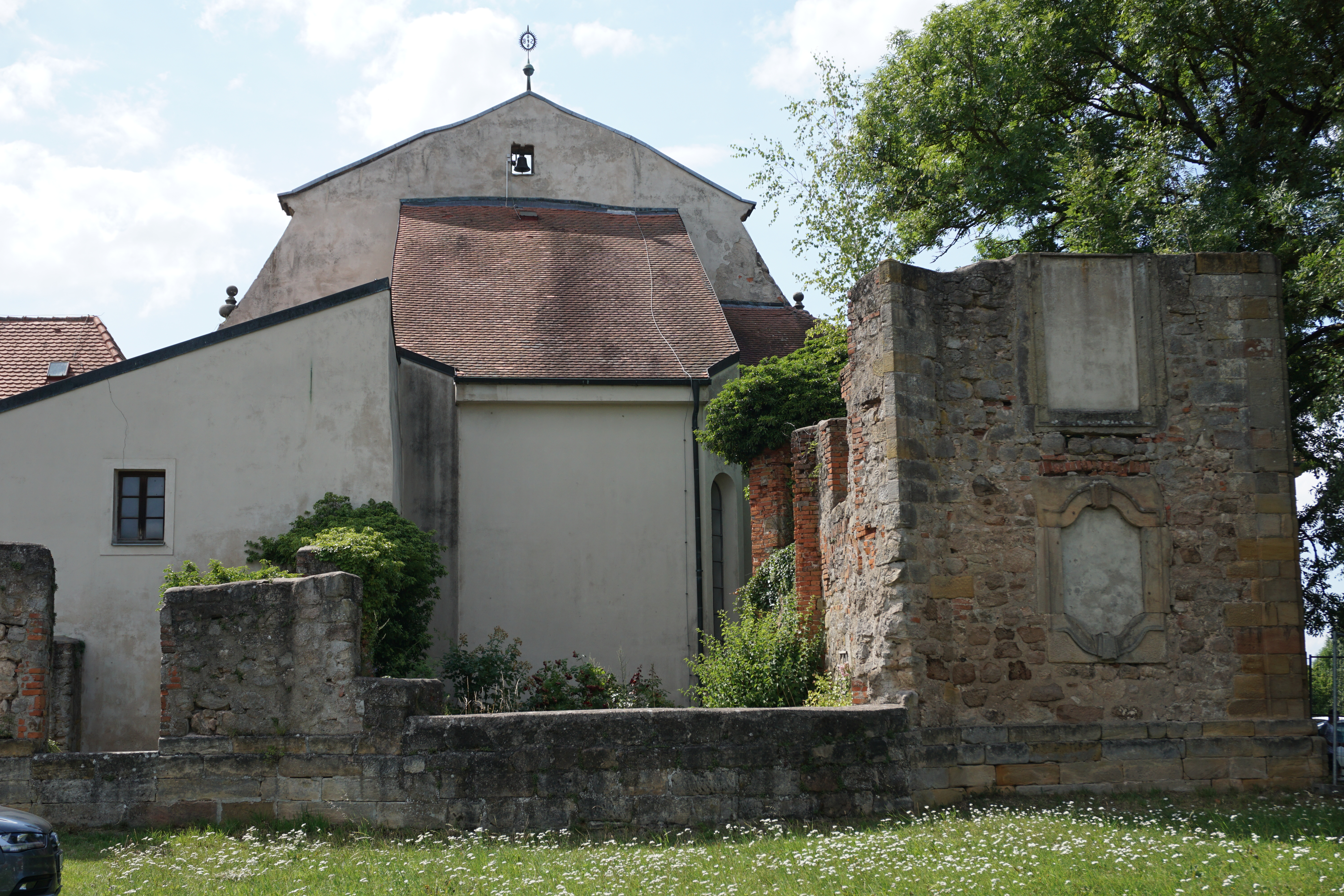 Speinshart, Ruine der barocken Wallfahrtskirche St. Barbara. Wikidata has entry Q41241234 with data related to this item.